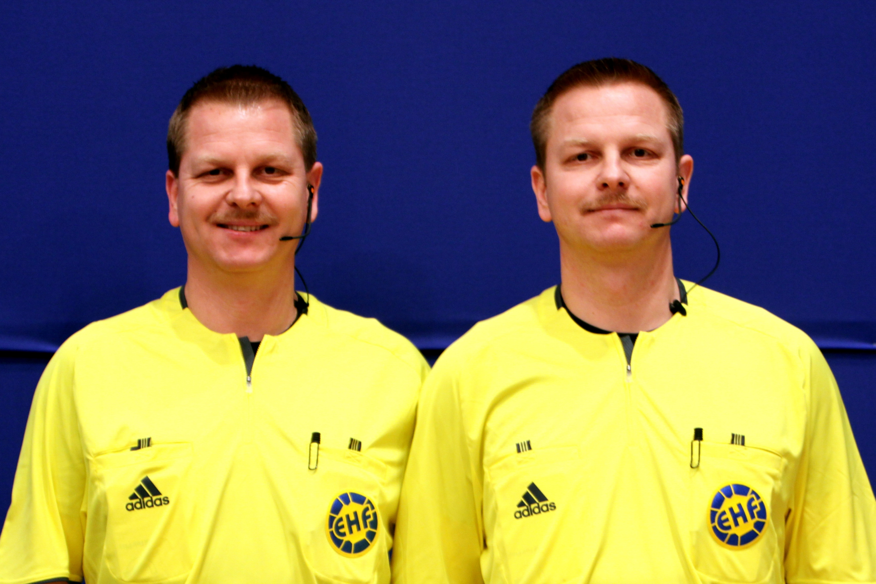 Bernd Methe and Reiner Methe (Germany), Referees of the 2010 European Men's Handball Championship